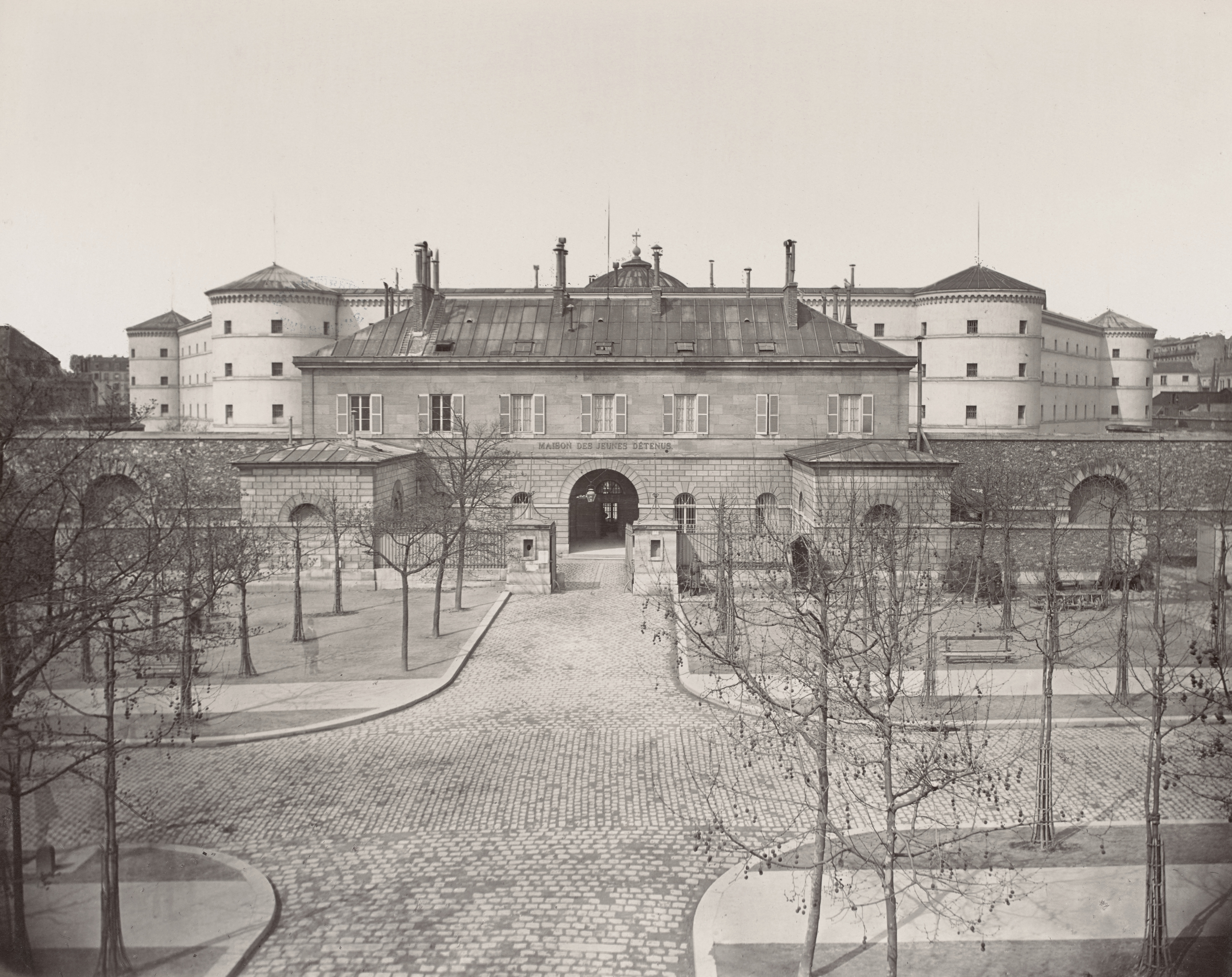 View of prison for young offenders, looking across intersection towards walled building with arched entrance.